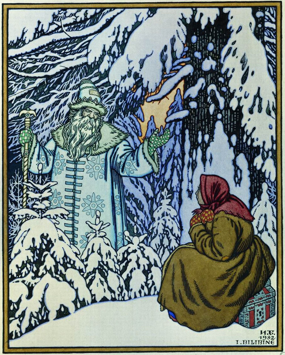 illustration by Ivan Bilibin from Russian fairy tale Morozko